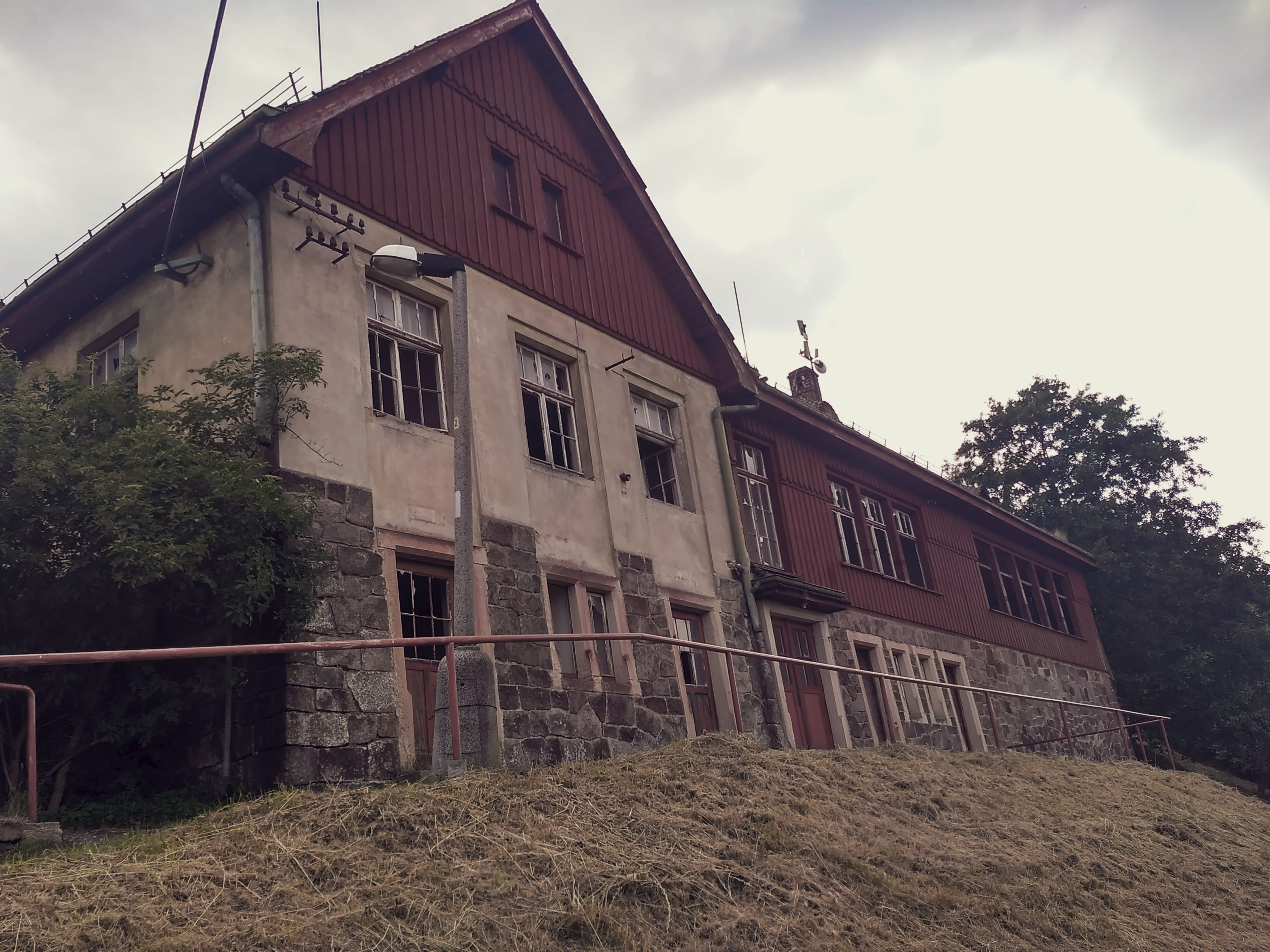 Railway building, Chotyně train stop